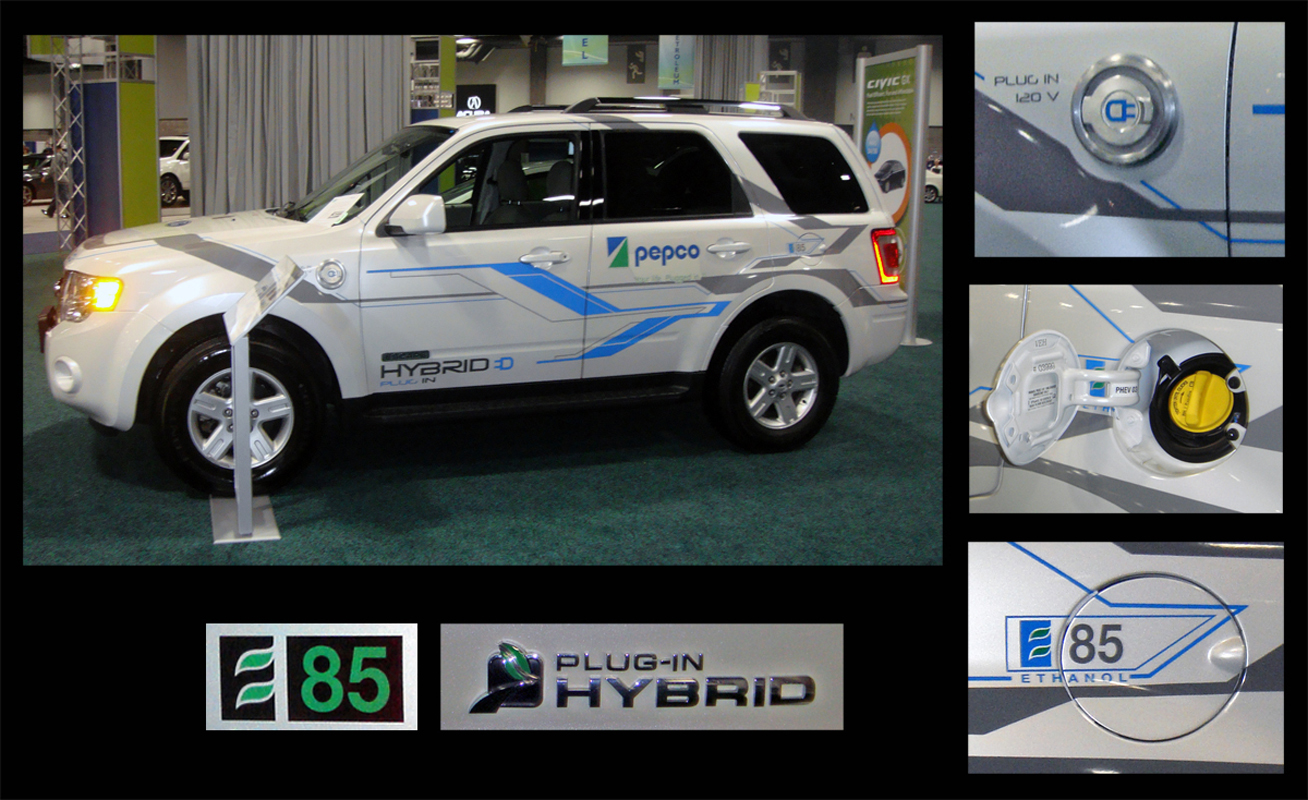 Ford Escape E85 flexible-fuel Plug-in hybrid exhibited at the 2010 Washington Auto Show (D.C.). Zoom in inserts showing details of: of Plug-in Hybrid badging, plug-in door, E85 fuel door (open and closed).